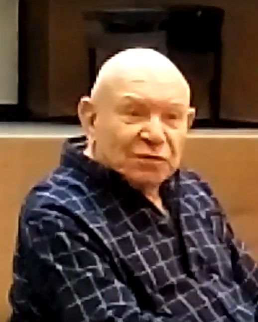 Teodor Shanin, a British and Russian sociologist.